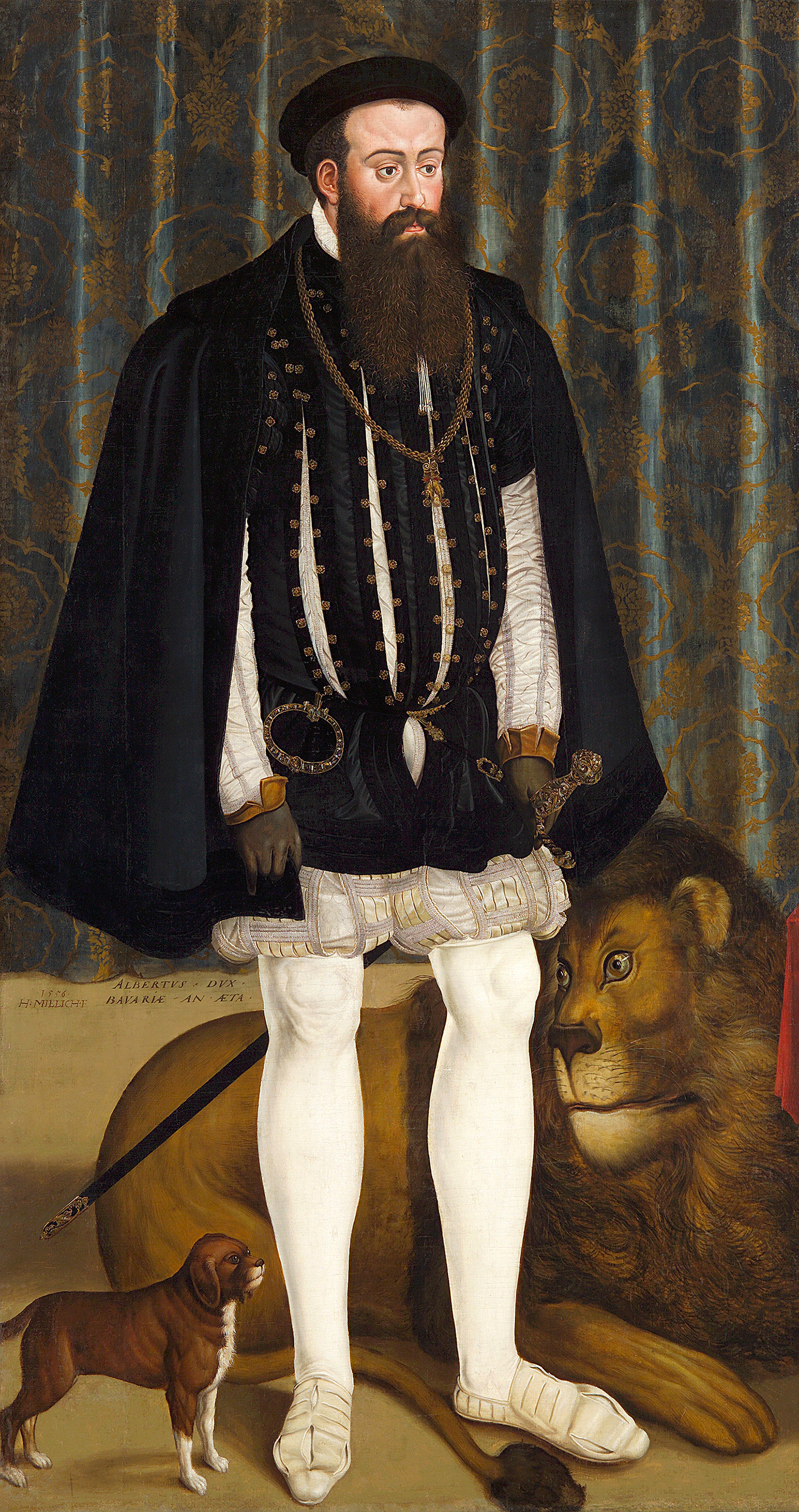 Albert V (1528-1579), Duke of Bavaria (1550-1579), 1555, Bavarian National Museum, on loan from BStGS